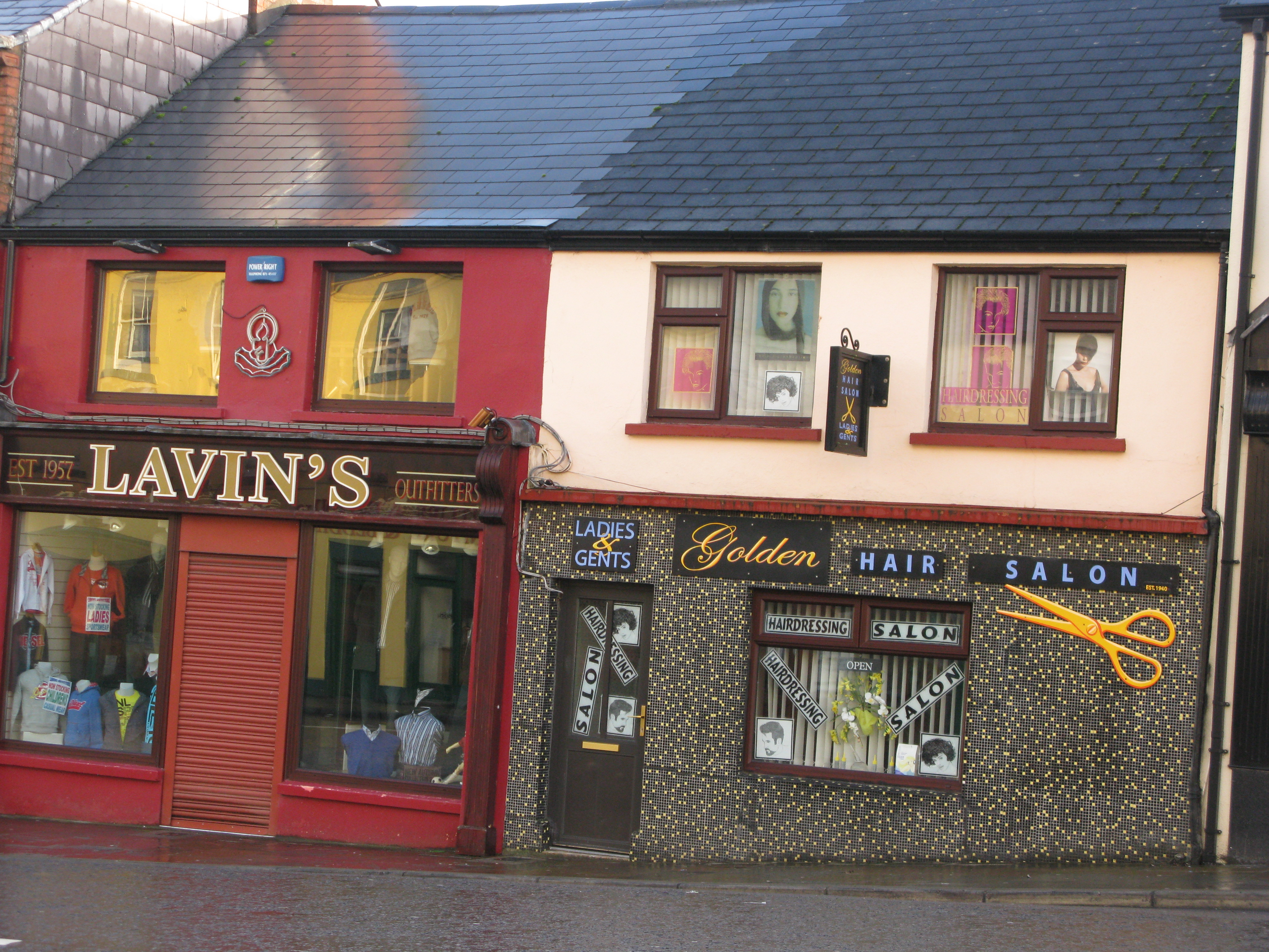 Winter dawn in Ballymote